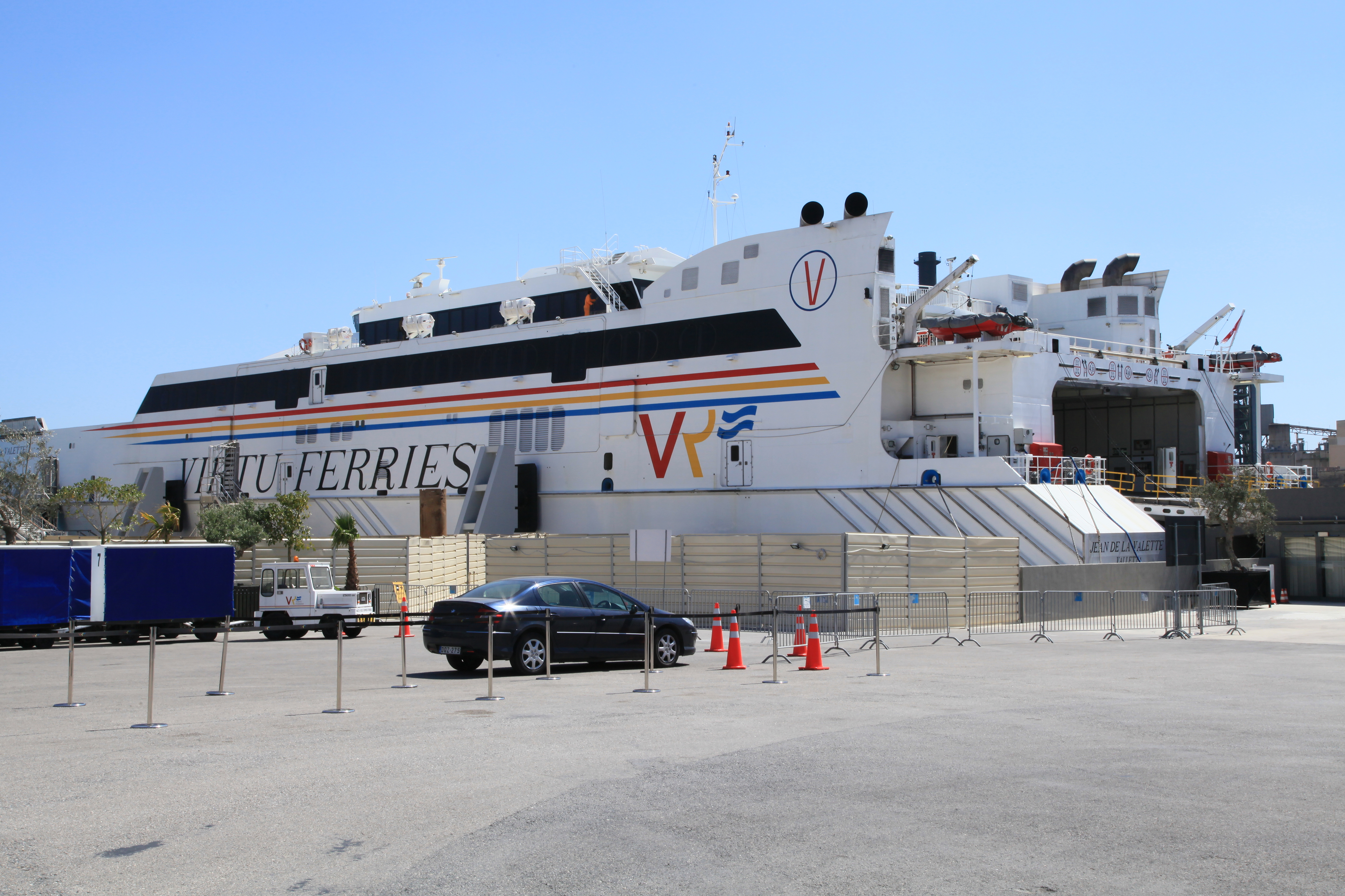 Ferry "Jean de la Valette" at Triq l-Għassara tal-Għeneb in Floriana, Malta